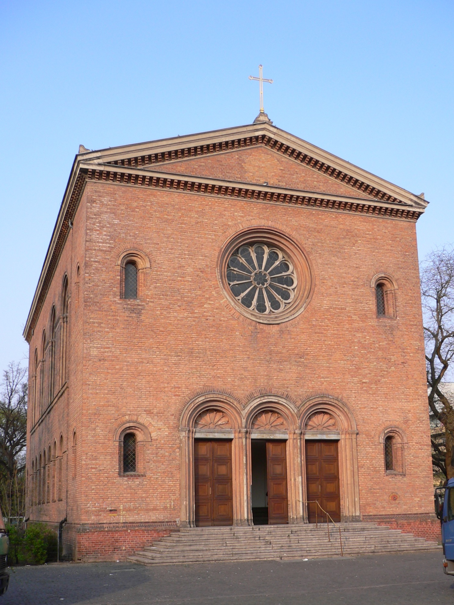 Alte Nazareth-Kirche (church), south western front, main entry